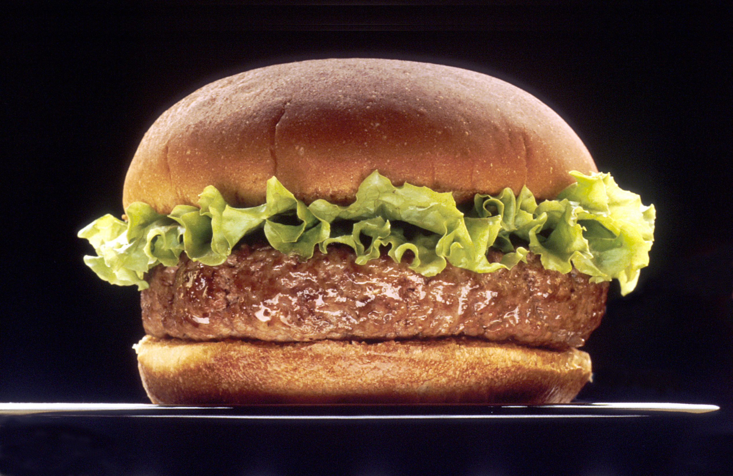 A hamburger with a rim of lettuce sitting on a black plate against a black background.